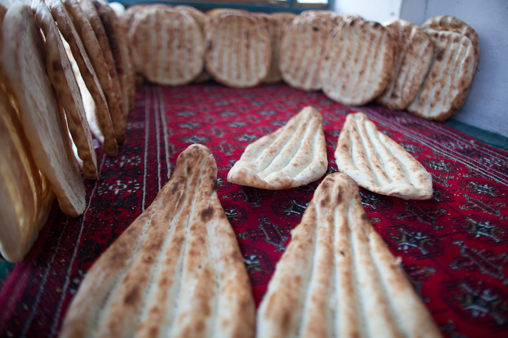 Afghan bread on display